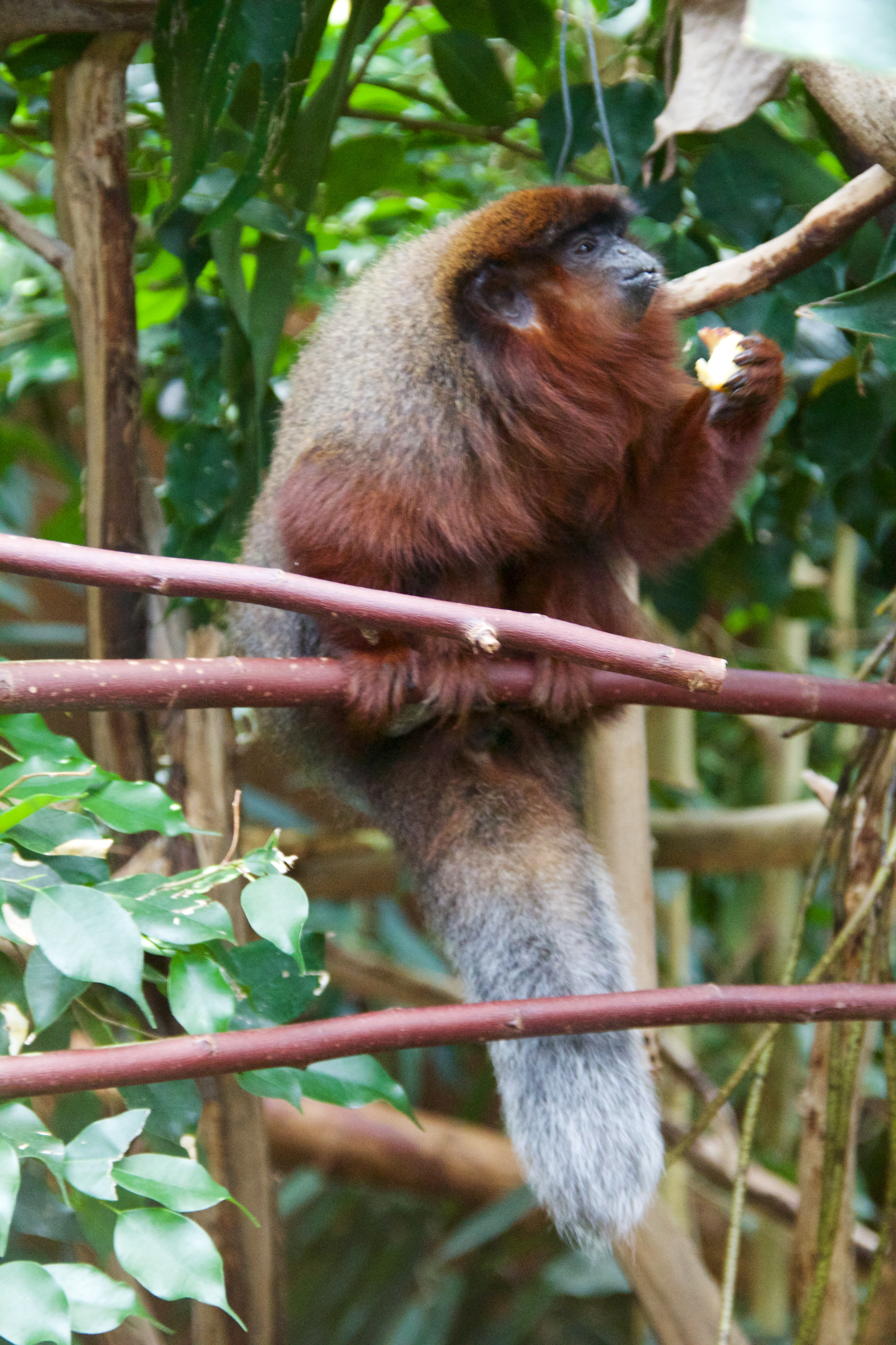 Monkey at Chester Zoo.